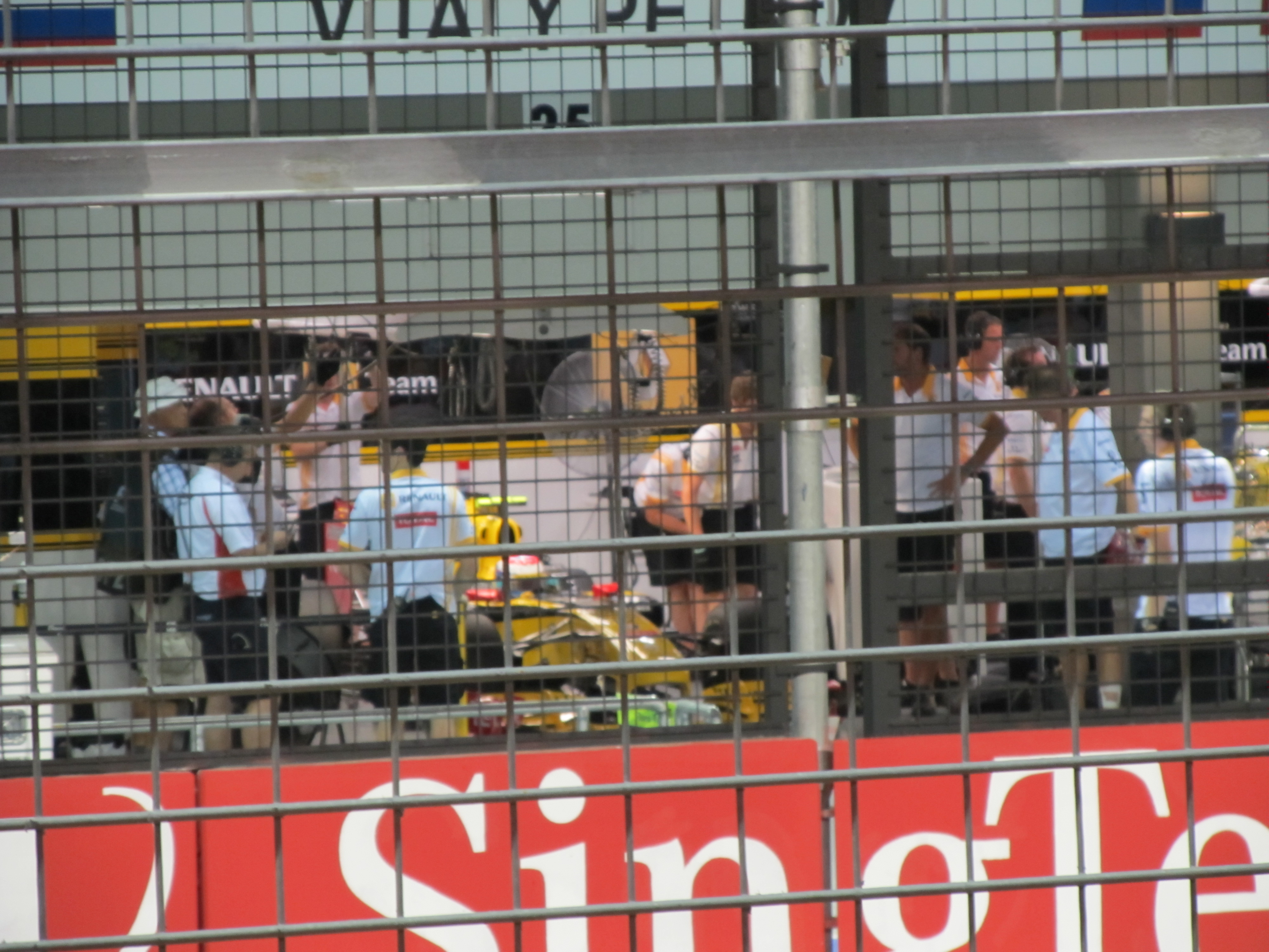 Vitaly Petrov's Renault F1 in his garage during second practice for the 2010 Singapore Grand Prix.